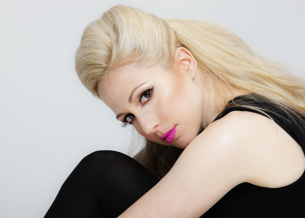 Colette at Box 24 Studio in Los Angeles, California 2013